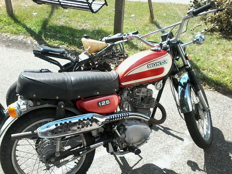 A picture I took of my motorcycle.